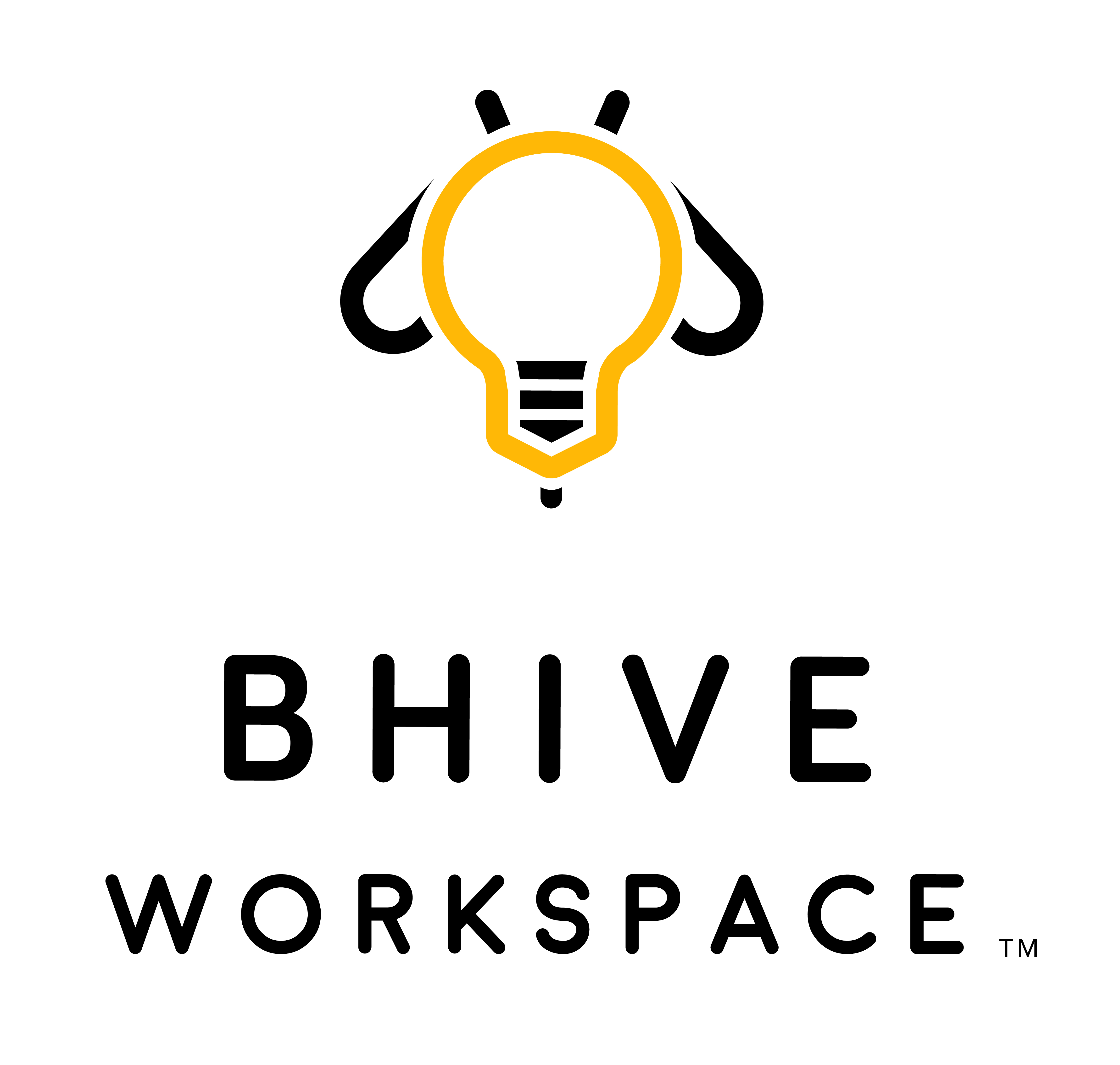 BHIVE Workspace Logo